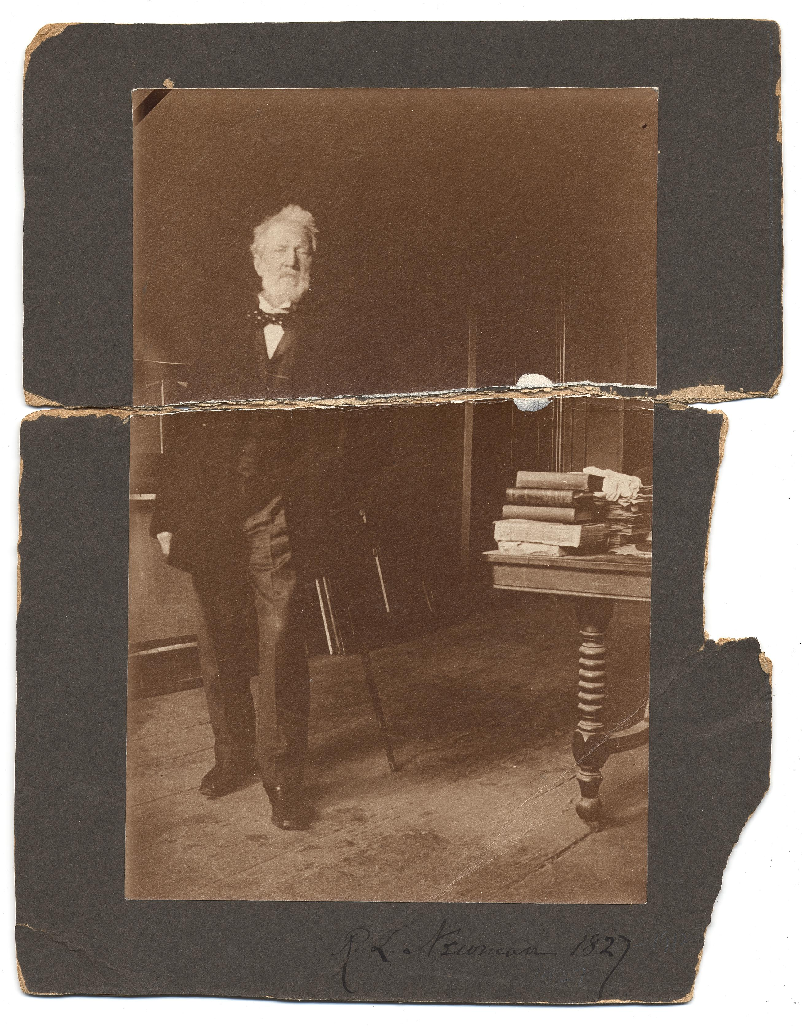 Description: Image is torn into two pieces and somewhat faded. Inscription lower right: "R.L. Newman". Published in: Archives of American Art Journal v. 12, no. 3, p. 4. Newman, Robert Loftin, 1827-1912 Creator/Photographer: Unidentified photographer Medium: Black and white photographic print Dimensions: 17 cm x 11 cm Date: c. 1900 Persistent URL: Repository: Archives of American Art Collection: Macbeth Gallery Records, c. 1890-1964 Accession number: aaa_macbgall_4808